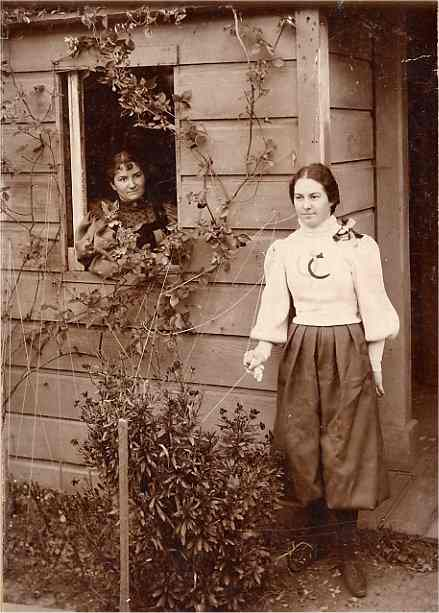 Sisters Hanscom, Adelaide (left) and Sarah